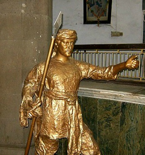 Old practise of delivering post in Mumbai